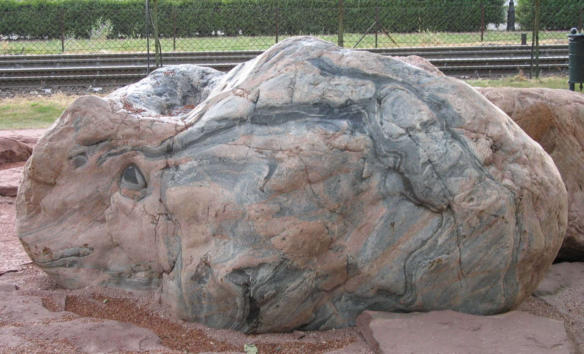 Sandstone boulder.